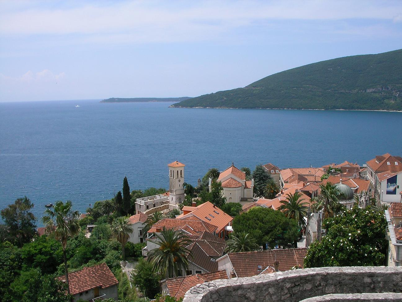 view of Herceg Novi from Fortress